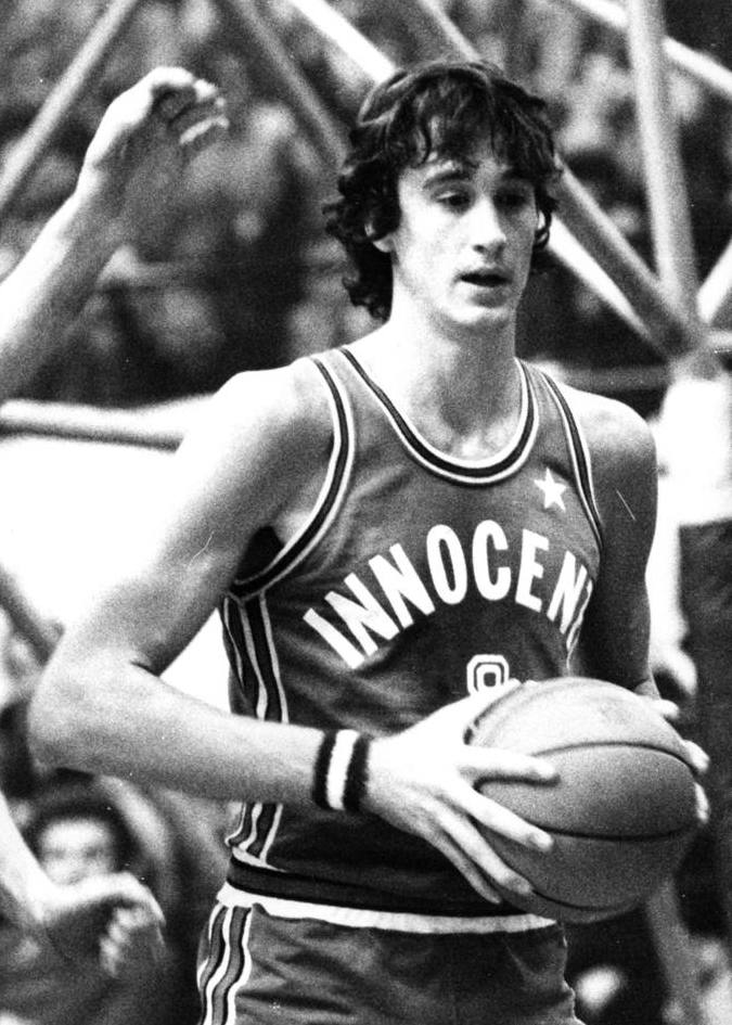 Lombardy, Italy. American basketball player Kim Hughes with Pallacanestro Olimpia Milano, know for sponsorship reasons as Innocenti Milano, in the 1974–75 season.